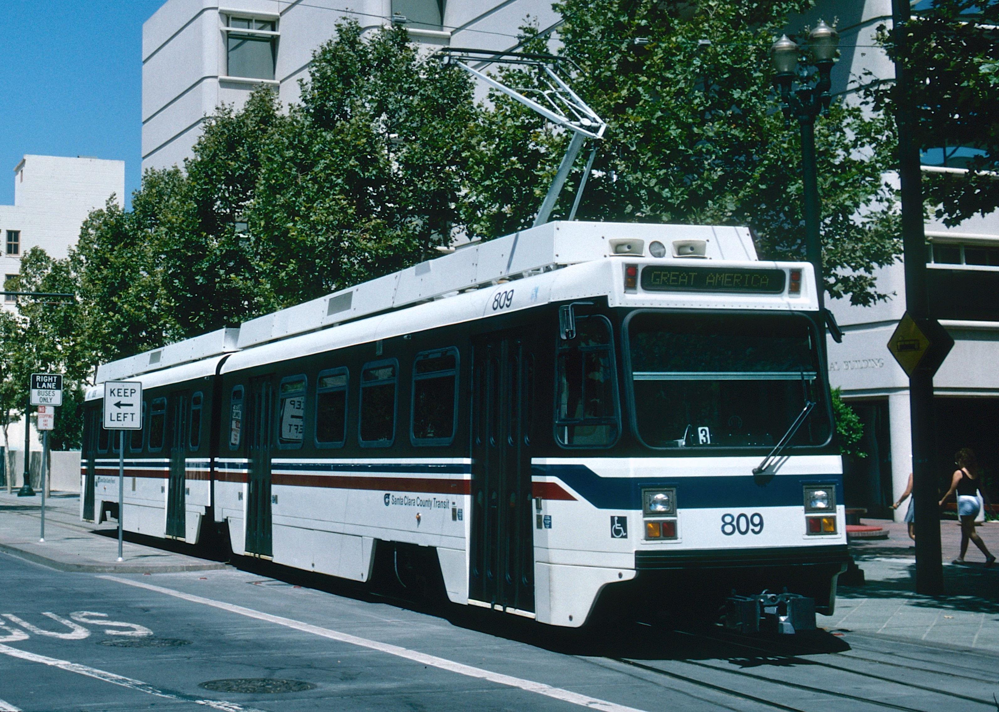 Santa Clara County Transit 1987 UTDC-built LRV 809 in downtown San Jose, northbound on First Street just north of San Carlos Street. It is going away from the camera. (The Santa Clara County Transit District and its parent, the umbrella organization known as the Santa Clara County Transportation Agency, were replaced by the Santa Clara Valley Transportation Authority in 1995.)